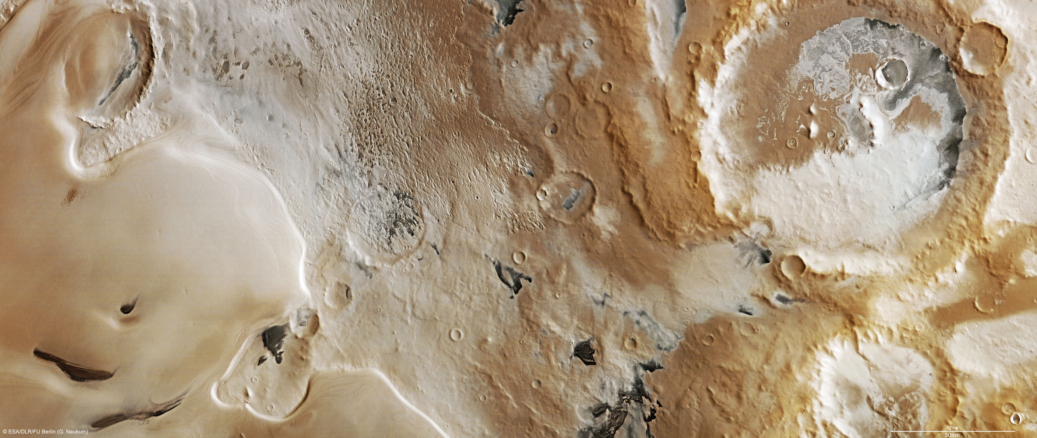 Promethei Planum on Mars imaged by the HRSC instrument aboard Mars Express.